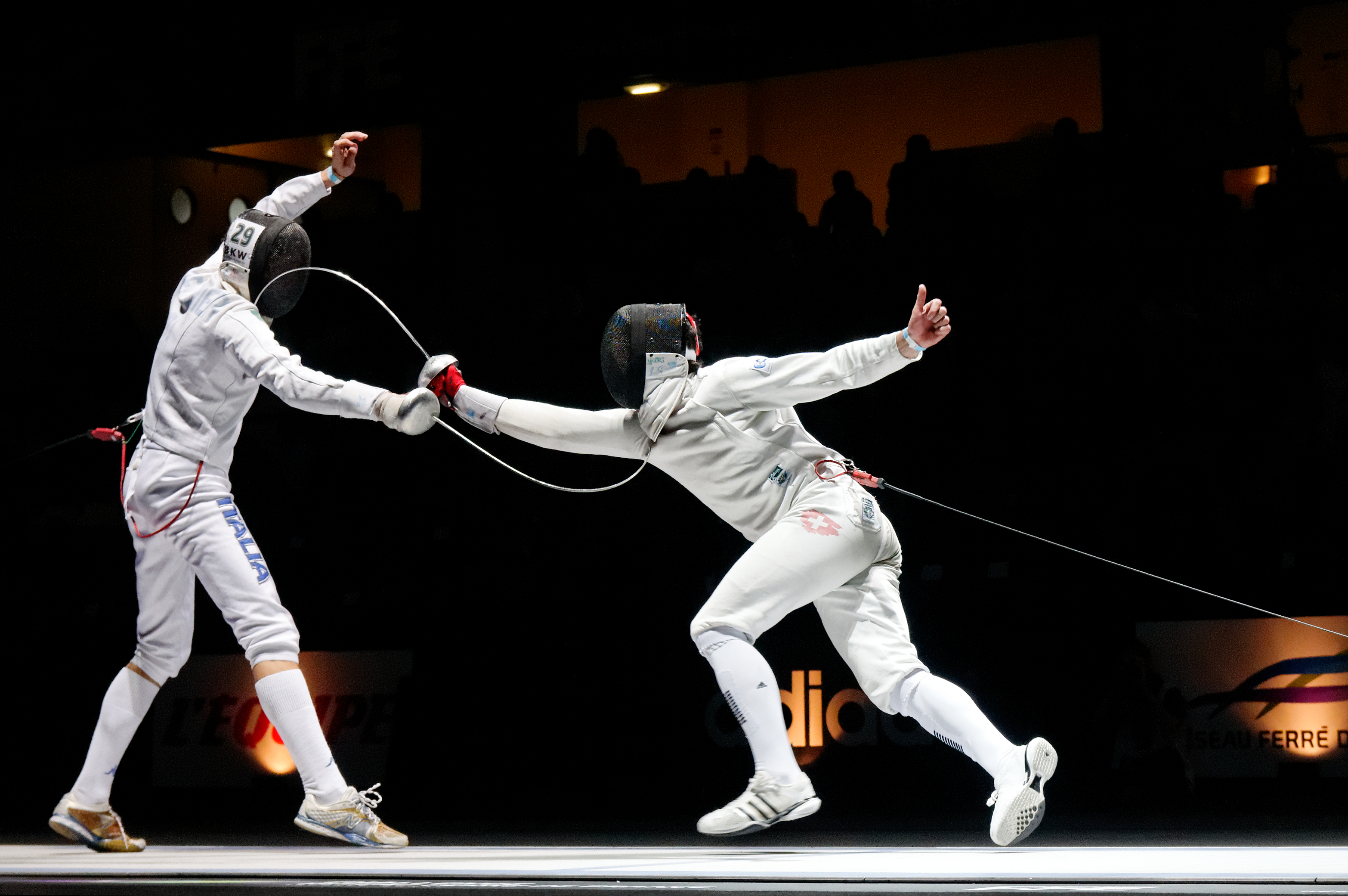 Final of the Challenge Réseau Ferré de France–Trophée Monal 2012 (épée world cup tournament in Paris): Diego Confalonieri (left) and Fabian Kauter (right).